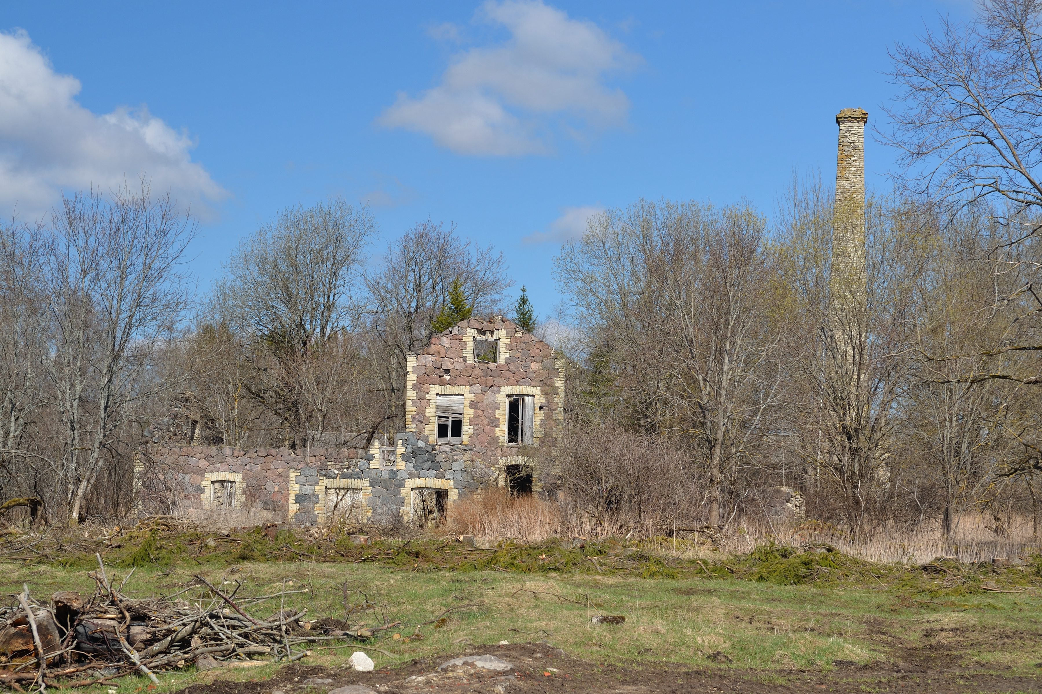 Esna manor distillery ruins